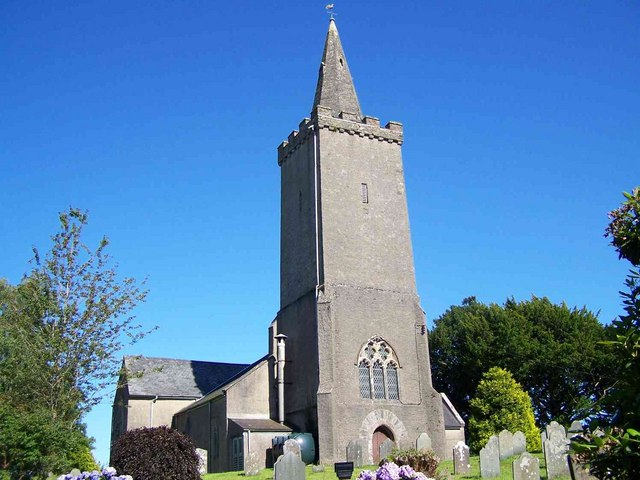 Parish church of the Blesséd Virgin Mary, Rattery, Devon, seen from the west